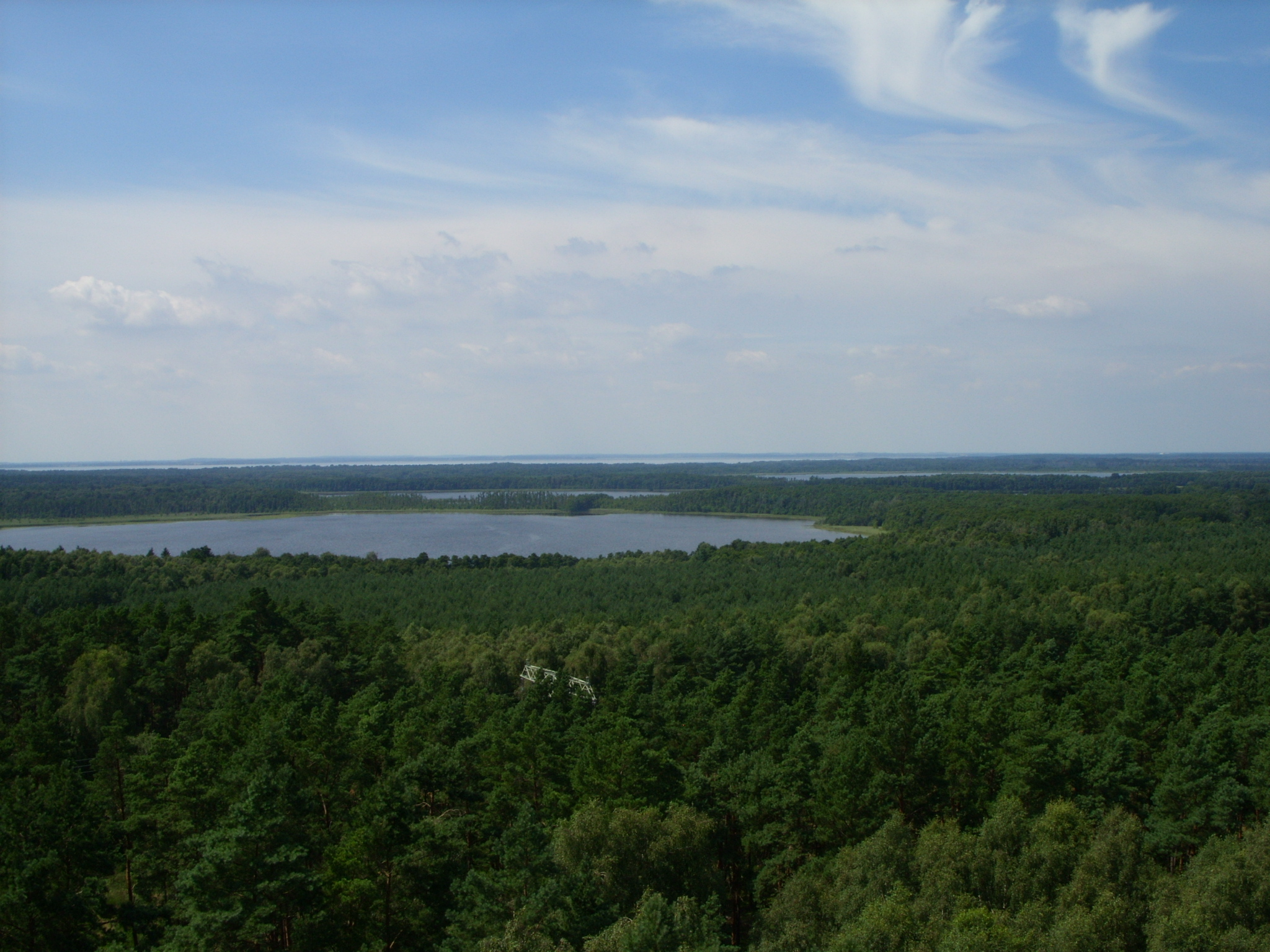 View from tower at hill Käflingsberg near Speck, district Mecklenburgische Seenplatte, Mecklenburg-Vorpommern, Germany